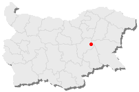 Map of Bulgaria, the red point is the position of Gradets, Sliven Province.